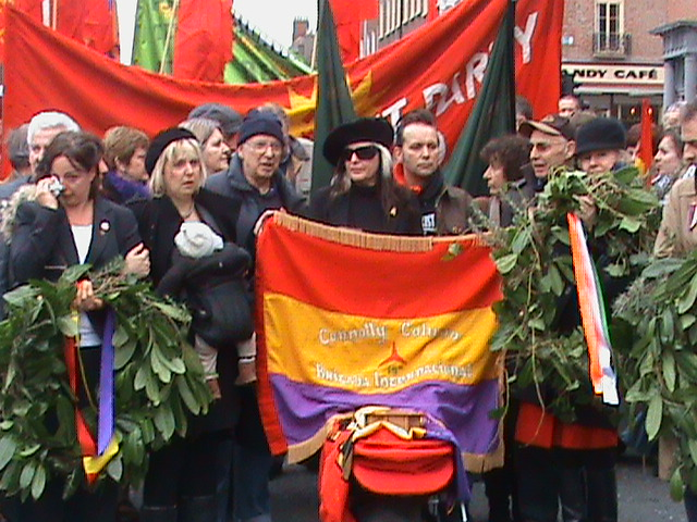 Bob Doyles ashes in Dublin